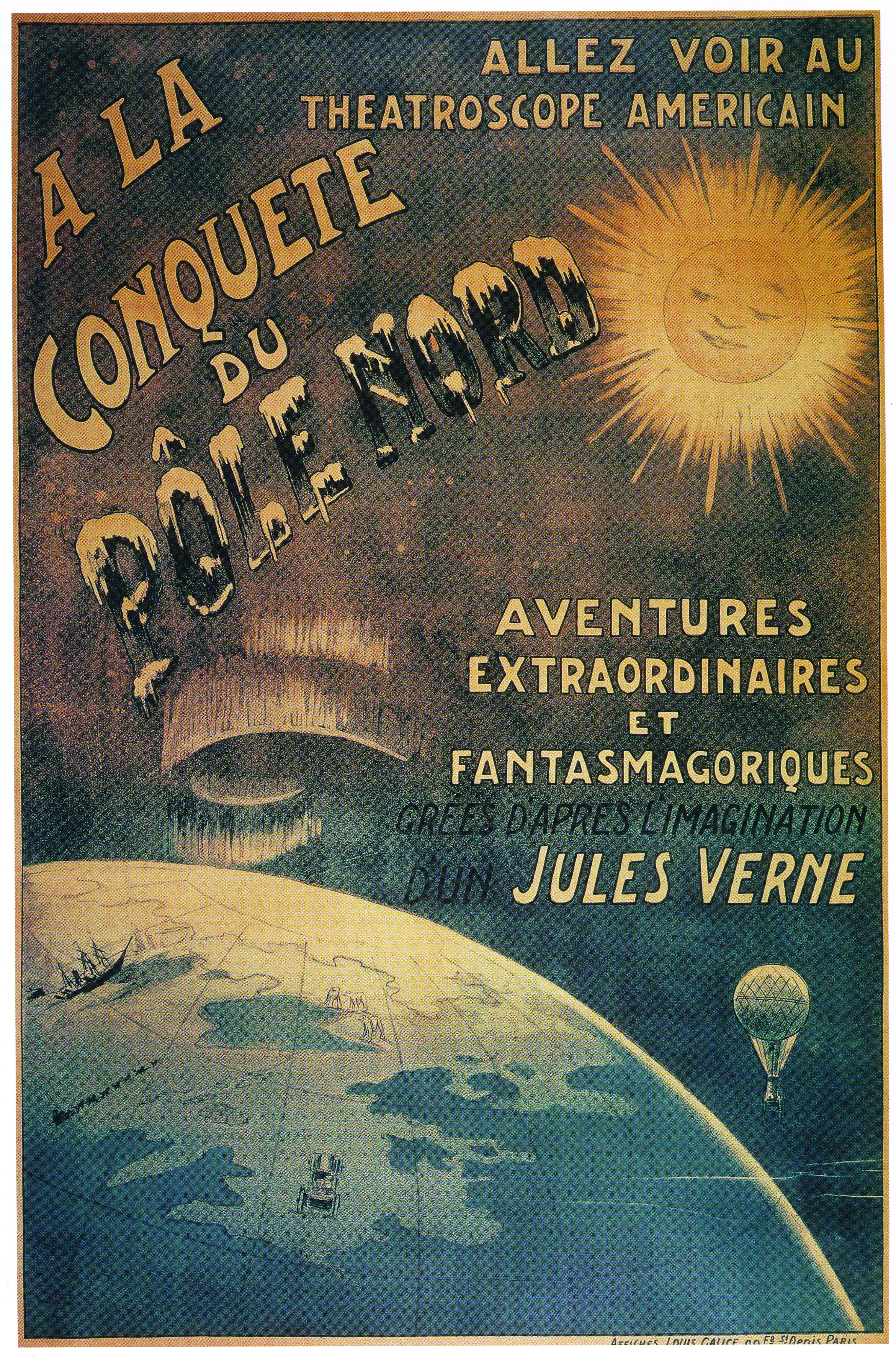 Poster for the Conquest of the Pole by Melies